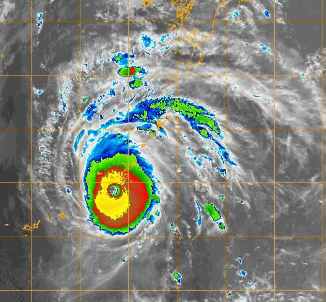 Typhoon Nari of 2007, seen from the F-15 IR satellite at 1021Z September 14.